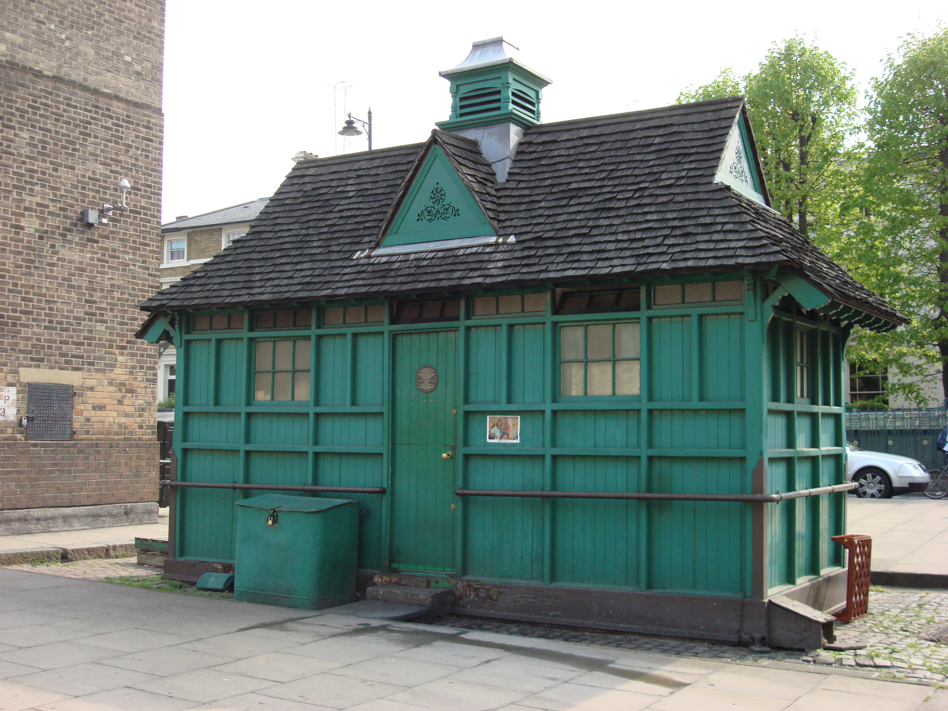 A Cabmen's Shelter Fund shelter in Warwick Avenue W9 - centre of the road, by Warwick Avenue tube station